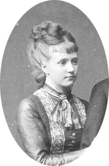 Infanta Adelgundes, Duchess of Guimarães, Countess of Bardi.